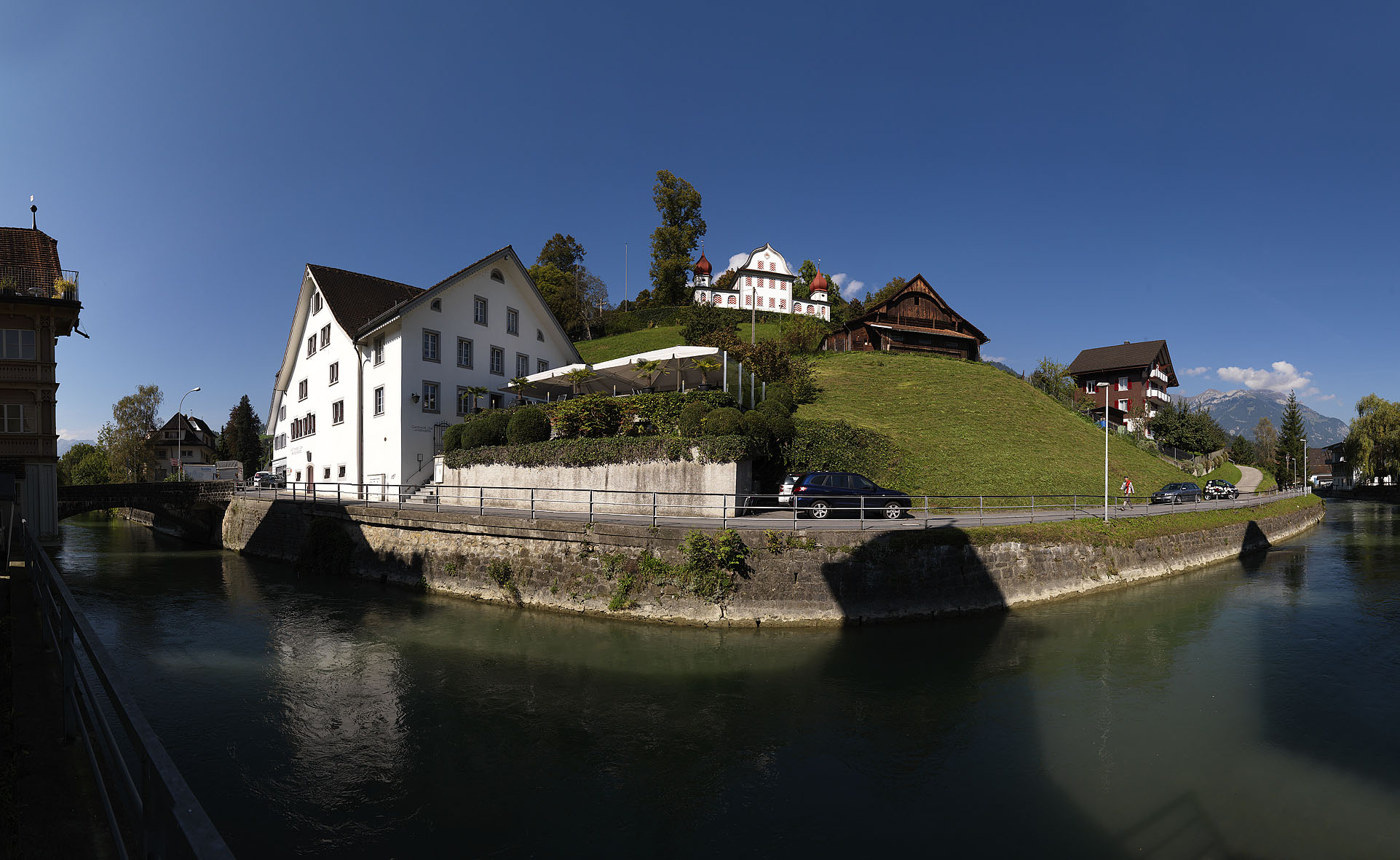 Gasthaus Landenberg, Sarnen